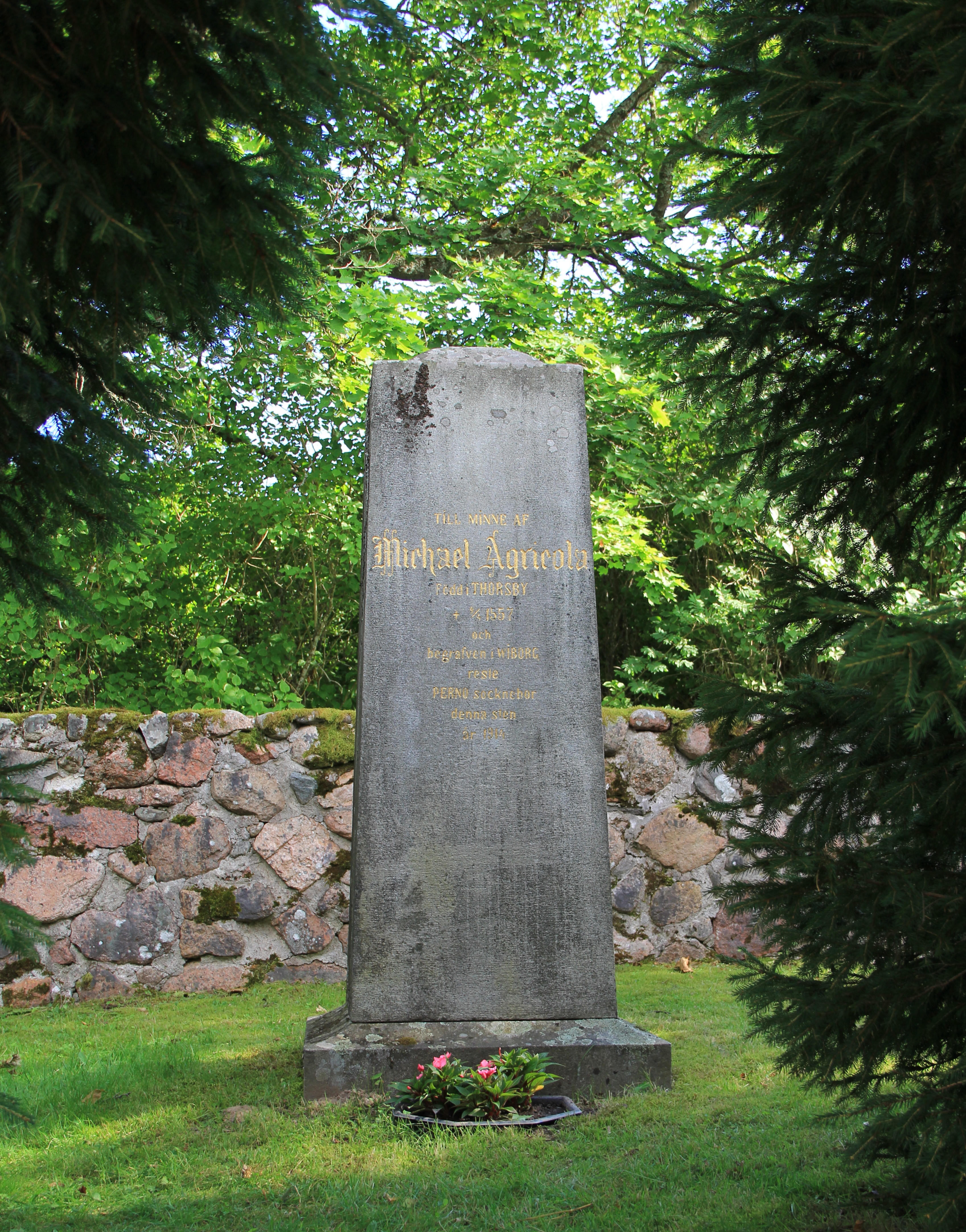 Mikael Agricola memorial stone in Torsby, Pernaja, Loviisa, Finland. The memorial.